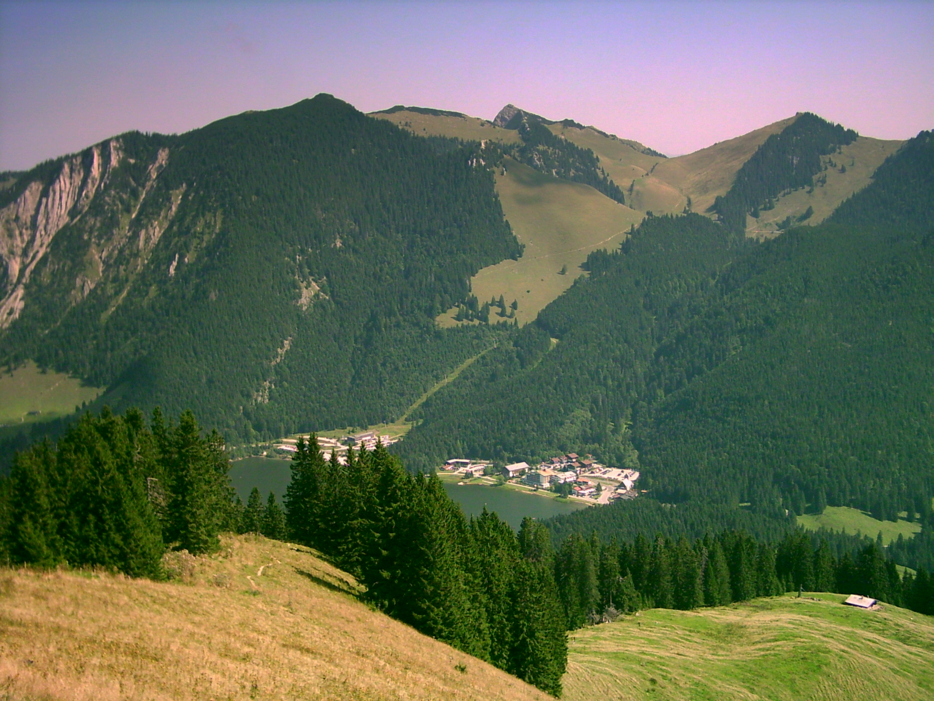 Spitzingsee in the Bavarian Alps seen from top of Rosskopf. Image by myself: Dominik Hundhammer, 12 September 2005.